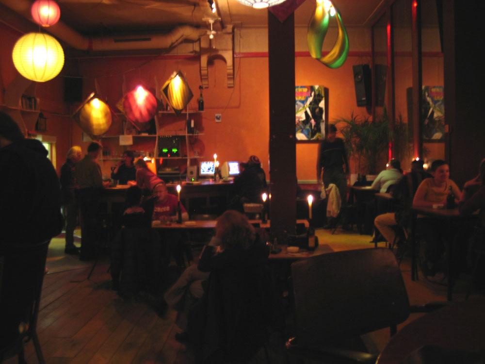 Interiour of social-cultural society Eureka in Zwolle, Netherlands